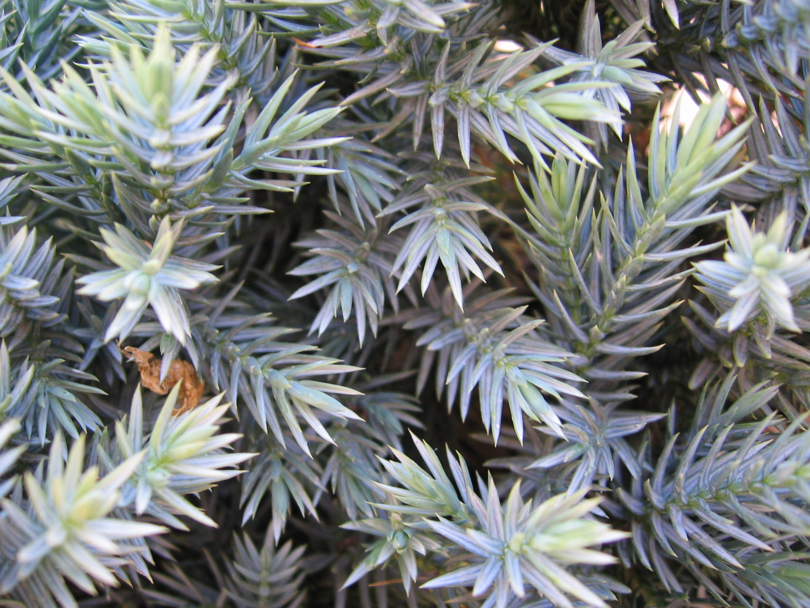 Juniperus squamata